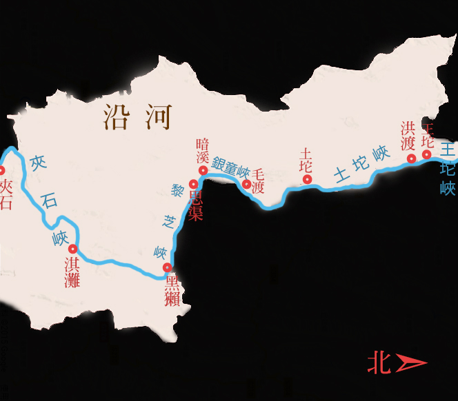 Gorges in Yanhe